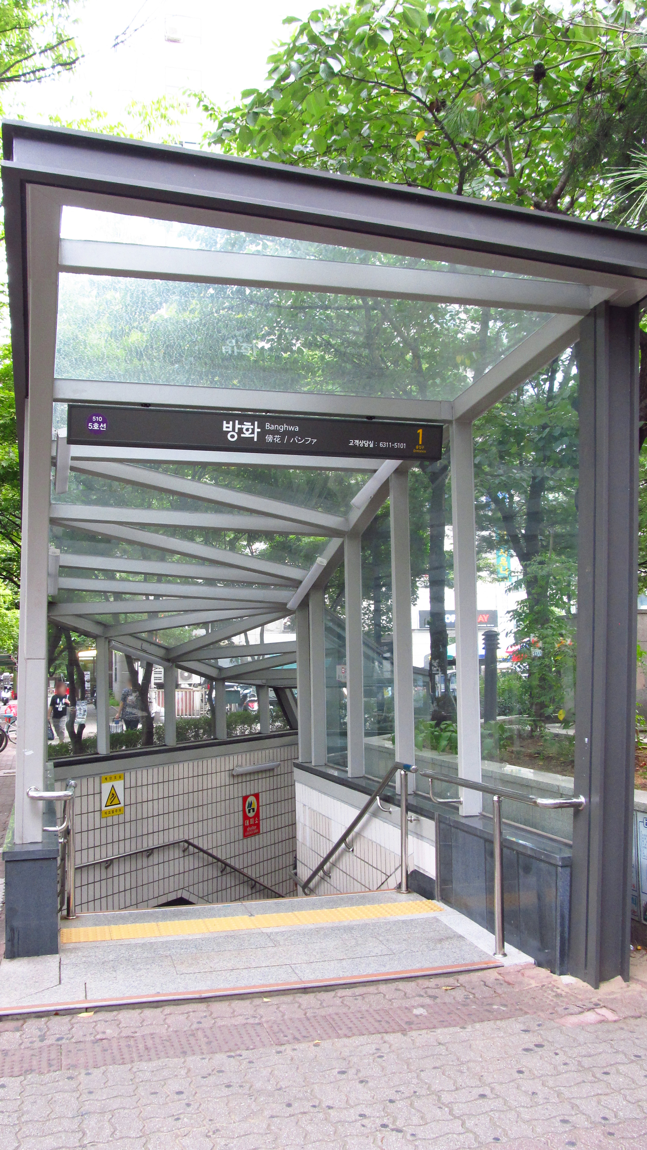 The no.1 entrance to Banghwa Station on the Seoul Metro Line 5 in Gangseo-gu, Seoul, Republic of Korea(South Korea)